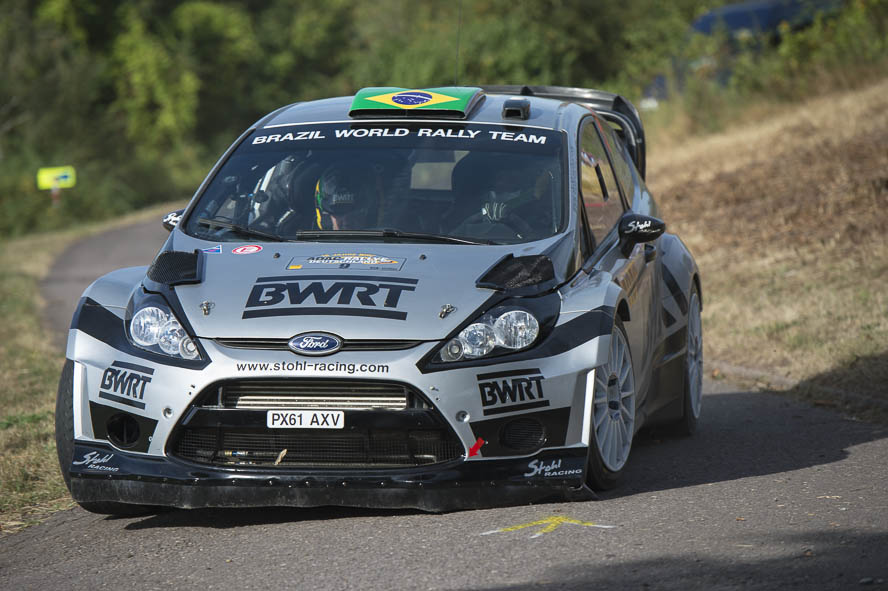 Rally Germany 2012 ADAC Rallye Deutschland,Brazil WRT,Brazil World Rally Team,Carlos Magalhaes,Daniel Oliveira,Ford Fiesta RS WRC,Motorsport,Rally,Rallye,Rallye Deutschland,Shakedown,WRC